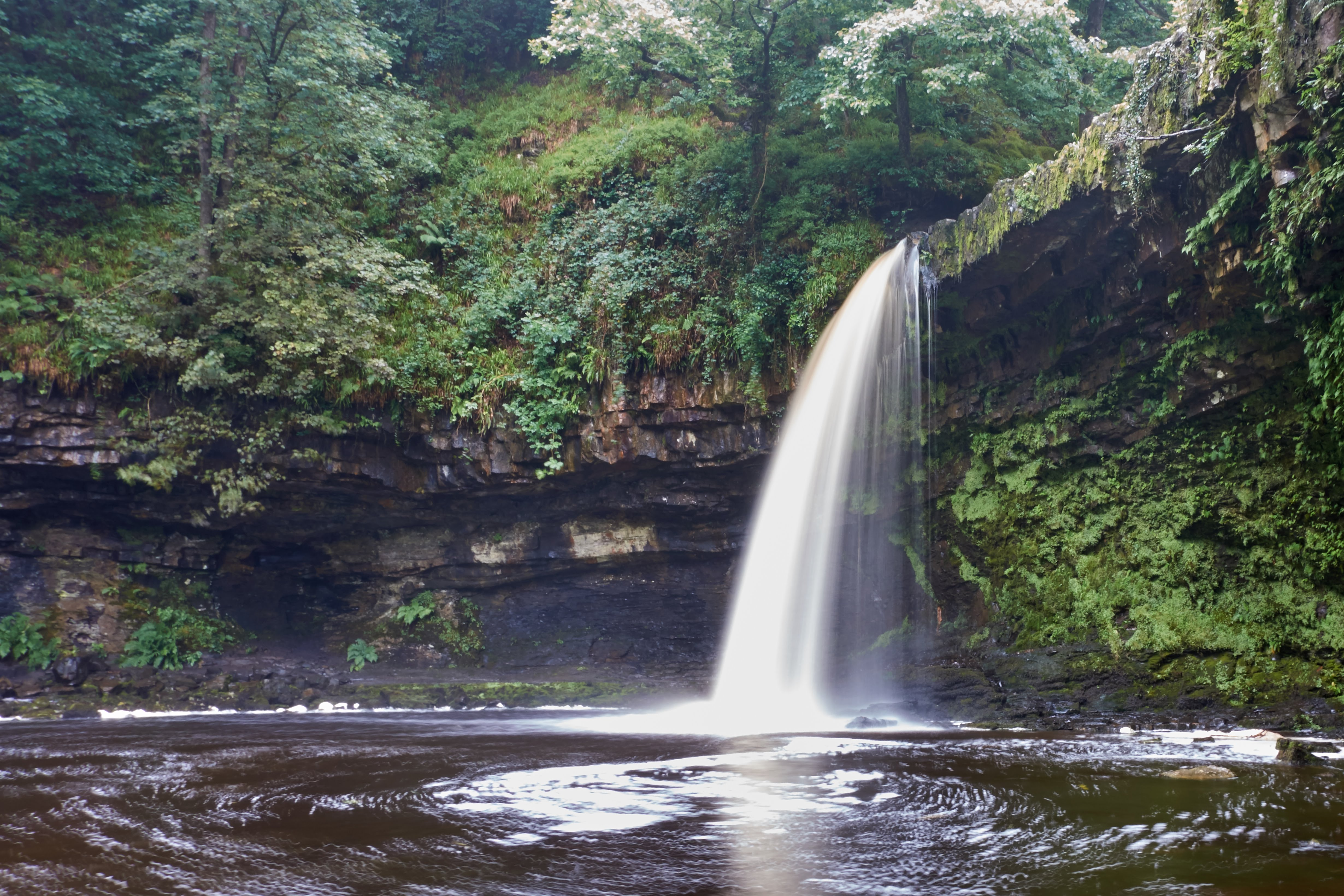 Sgwd Gwladys, July 2016